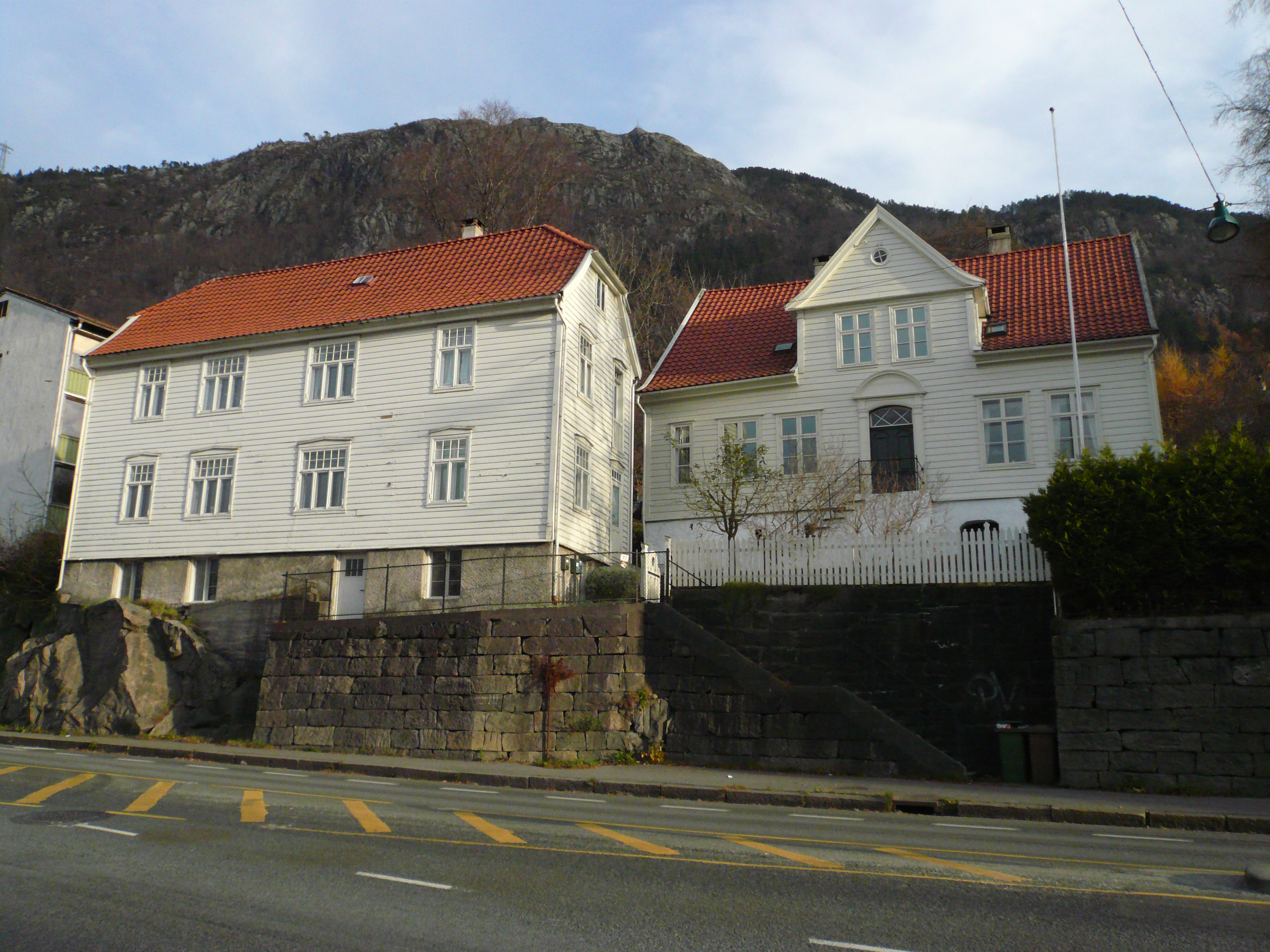 Møllersalen, Sandviken, Bergen, Norway